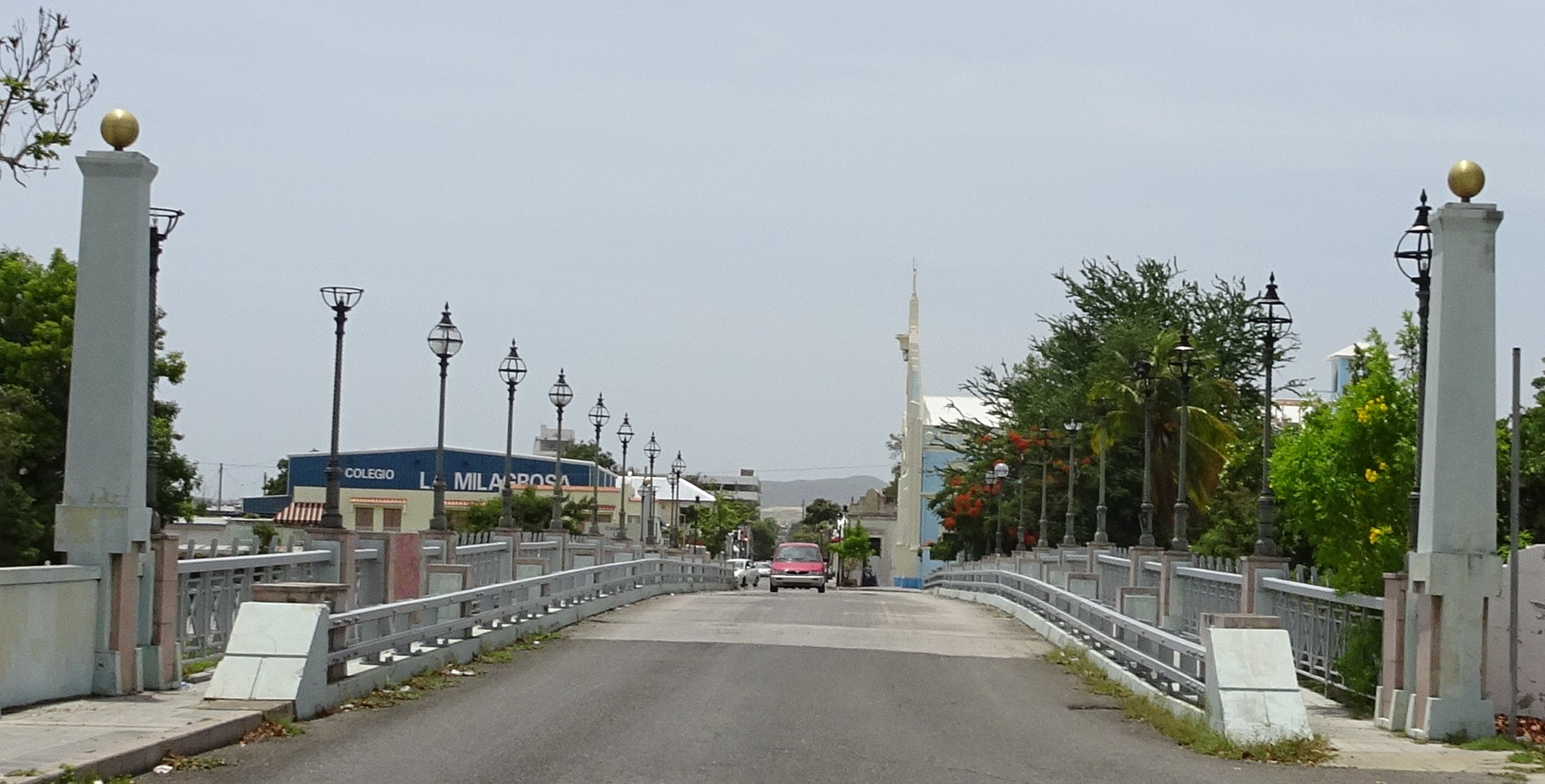 Puente La Milagrosa, C. Guadalupe (PR-14R), Bo. Machuelo Abajo, Ponce, PR, mirando al oeste (DSC01863A)